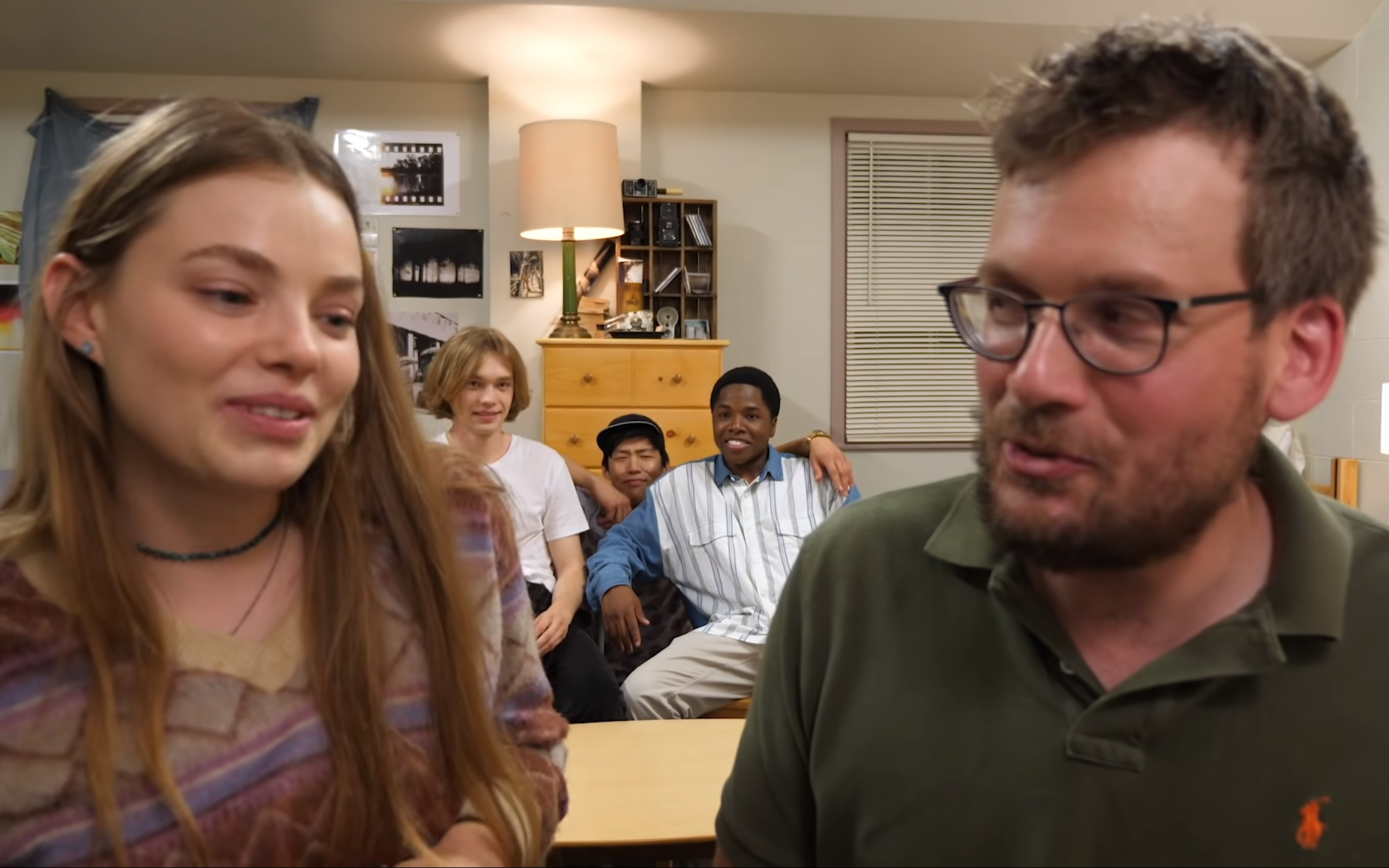 Looking for Alaska (...with Alaska) cast and author. Left to right: actors Kristine Froseth who plays Alaska Young, Charlie Plummer who plays Miles "Pudge" Halter, Jay Lee who plays Takumi Hikohito, Denny Love who plays Chip "The Colonel" Martin, and John Green, author of the original book. In which John talks about the 8-episode, limited series adaptation of his first novel "Looking for Alaska," which will be streaming on Hulu starting October 18th. AND ALSO IN ALL THESE PLACES: · HBO in Central Europe · HBO in the Nordics · HBO in Spain · BBC3 in the UK (October 19th) · STAN in Australia (October 19th) Help transcribe videos - John's twitter - Hank's twitter - Hank's tumblr - Listen to The Anthropocene Reviewed at Listen to Dear Hank and John at